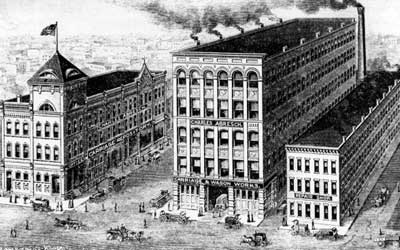 Charles Abresch Co., Nos. 407 to 415 Poplar Street, and Nos. 392 to 398 Fourth Street (later renumbered to 1242, 1246, 1254 N. 4th St.) in 1899.